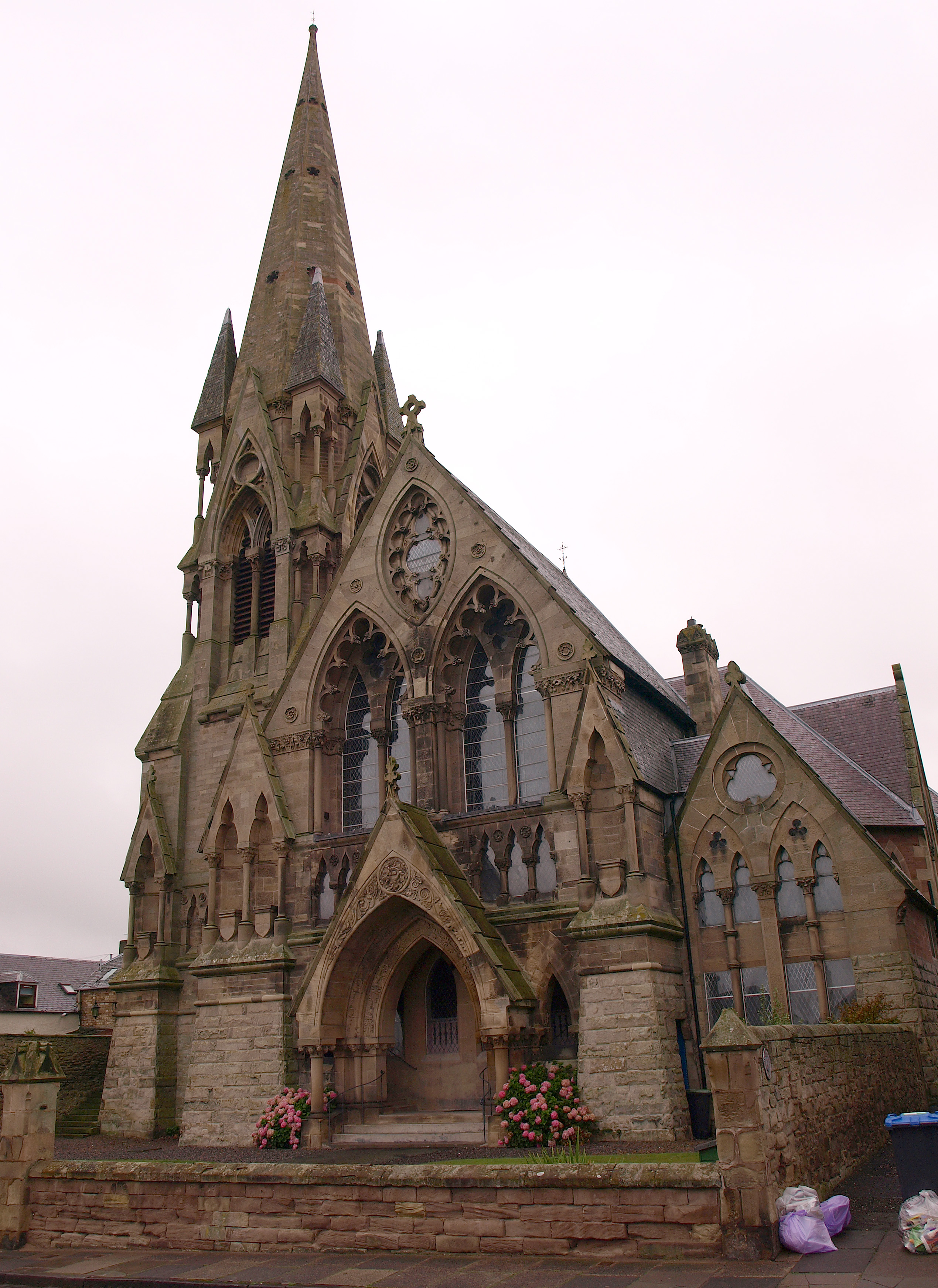 Kelso North Parish Church